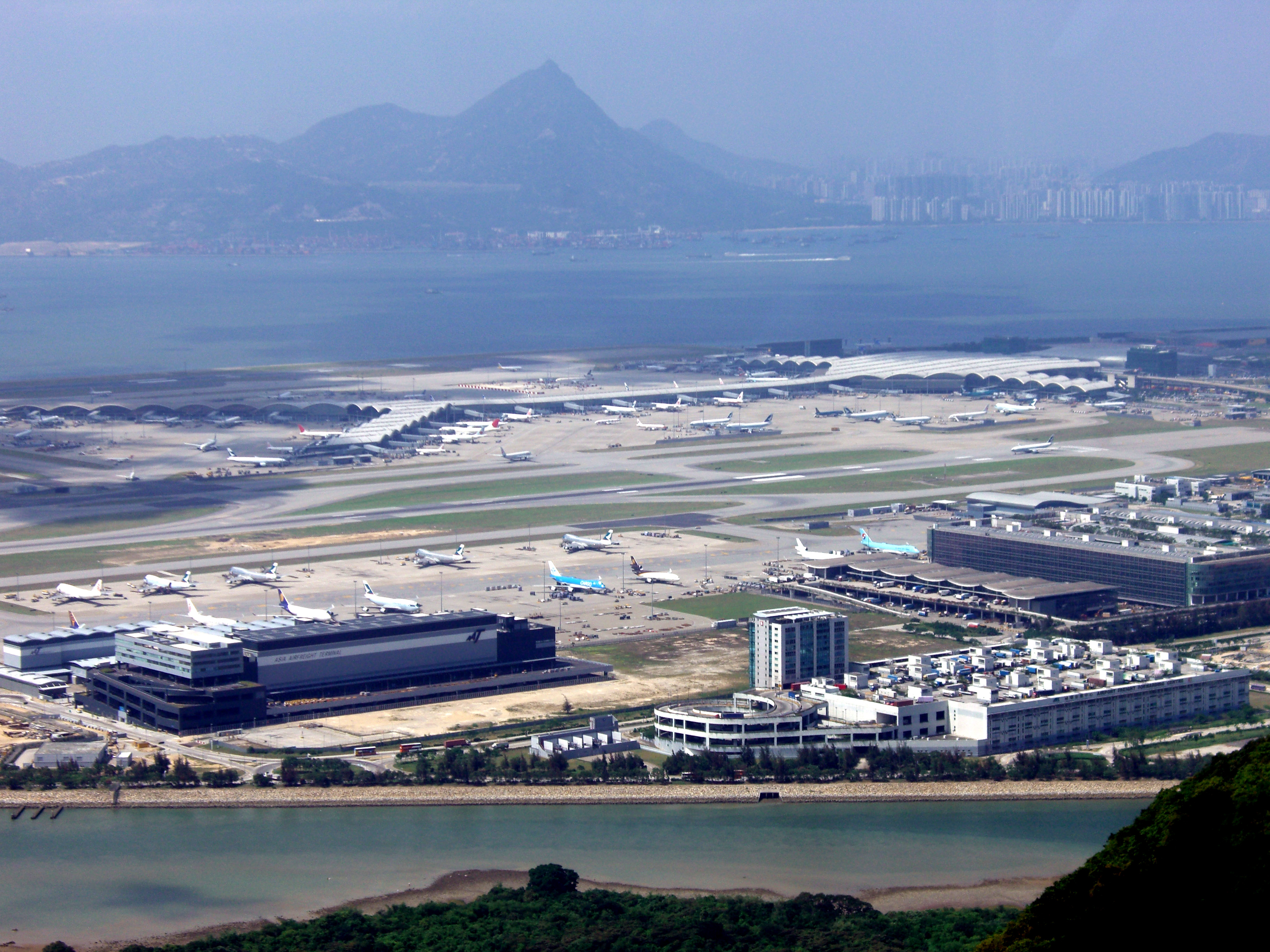 View of the airport from the Ngong Ping 360 cable car.